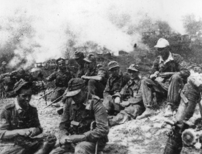 Germans burned the city Kalavryta This media file is produced by Wikipedian in Residence in Category:Wikipedian in Residence at DARM in 2016.